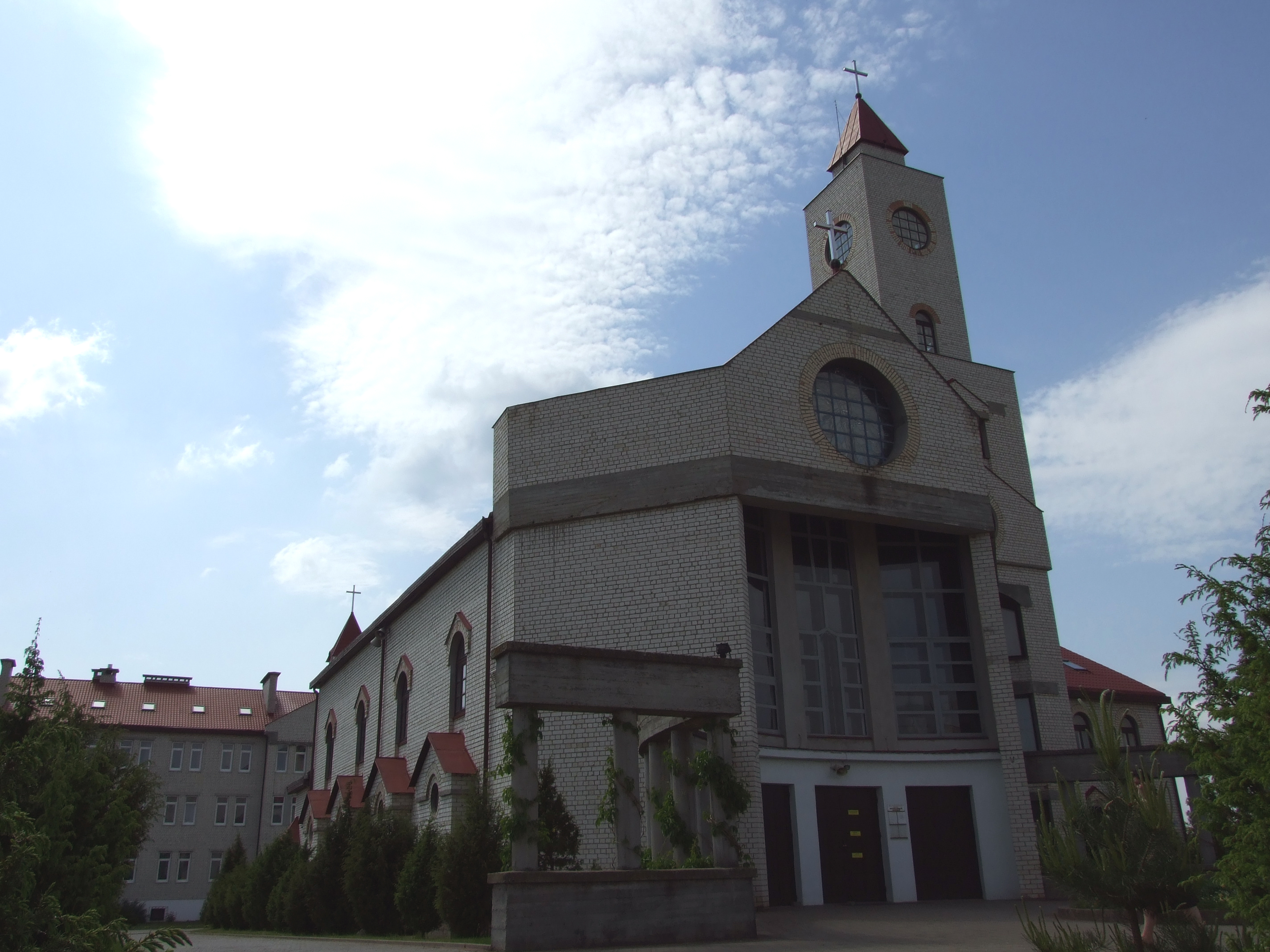 Church of the Mother of God of Fatima (Baranavichy)